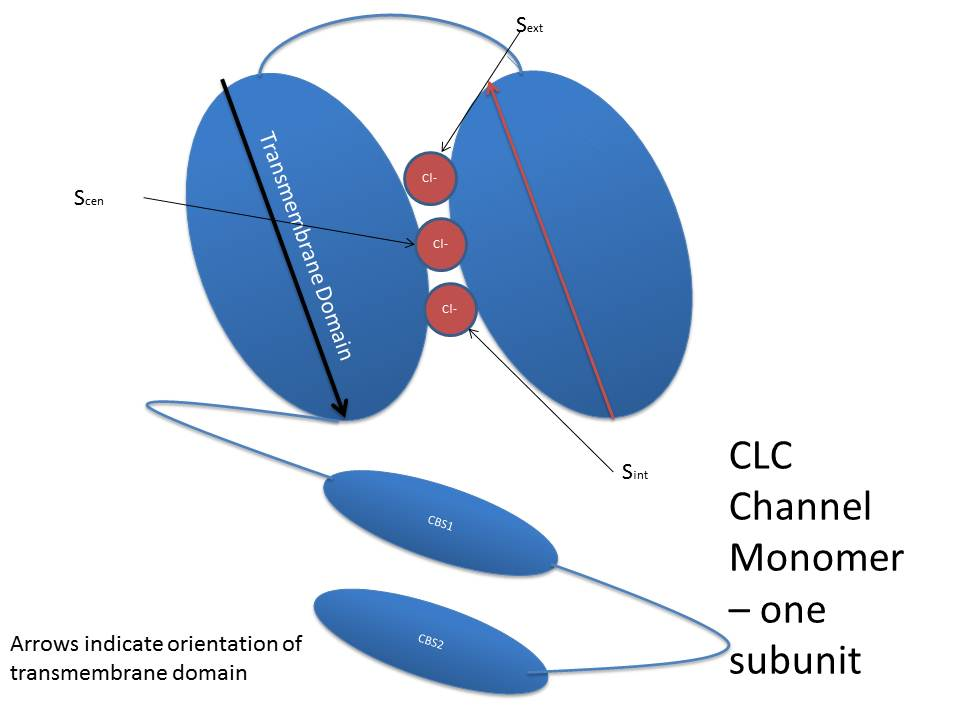 Cartoon schematic of one subunit of a CLC chloride channel